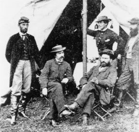 Seated: R. William Moore and Allan Pinkerton. Standing: George H. Bangs, John C. Babcock, and Augustus K. Littlefield